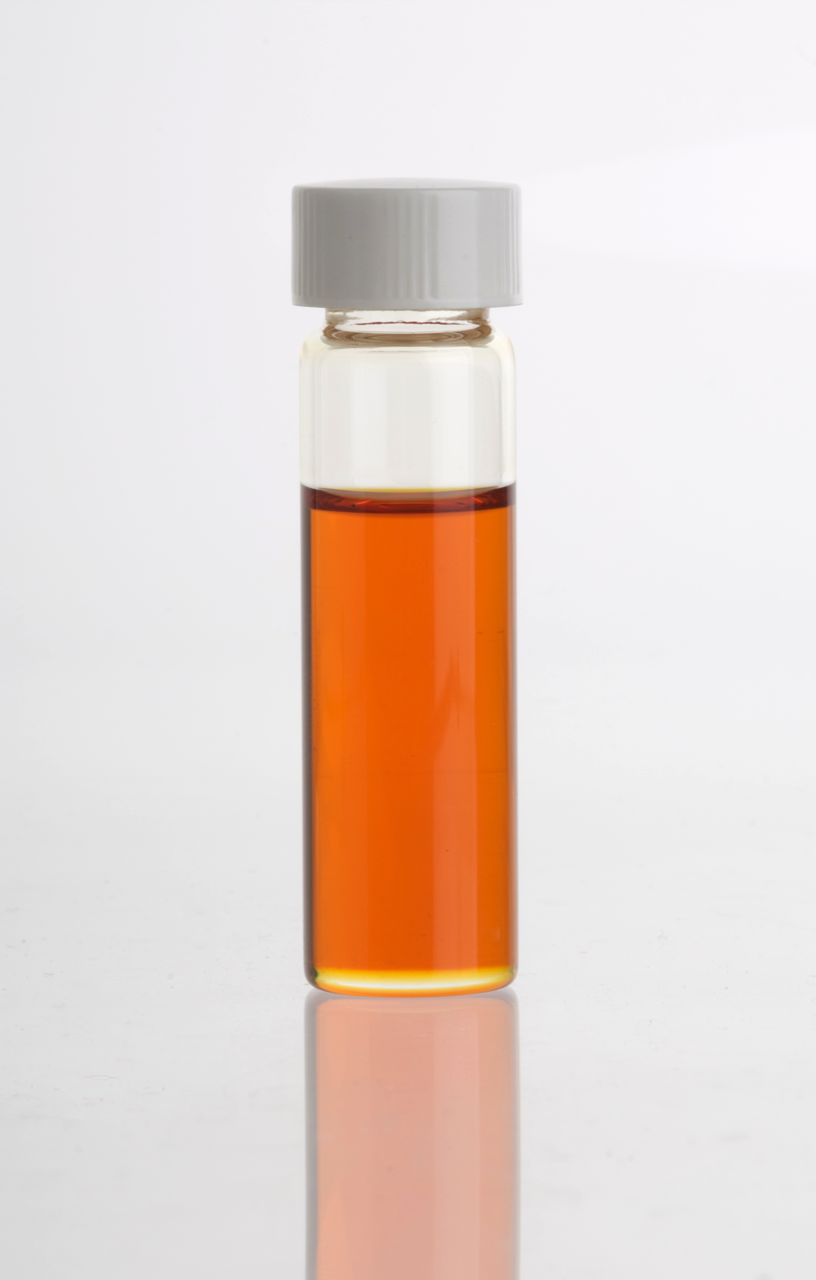 Glass vial containing Davana (Artemisia pallens) Essential Oil